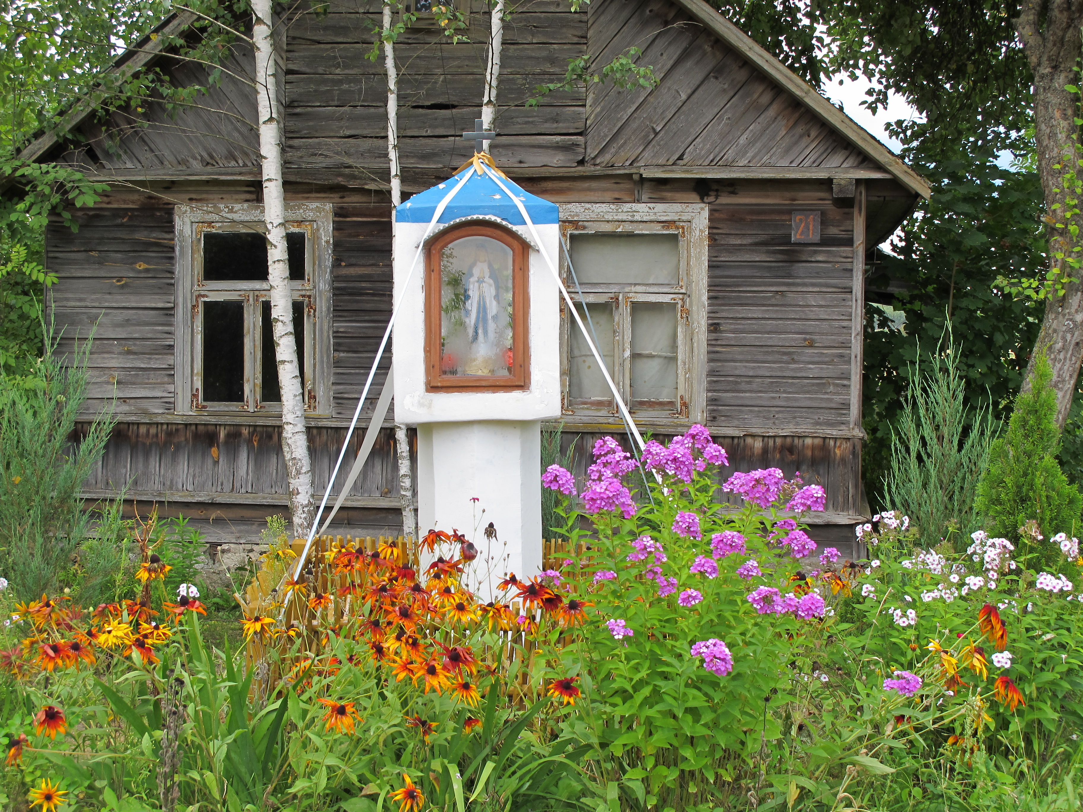 Shrine in the Nowa Świdziałówka village, gmina Krynki, podlaskie, Poland